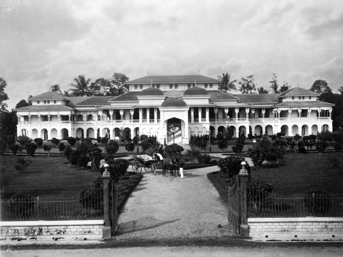 The Istana Maimun, the Sultan of Deli's palace